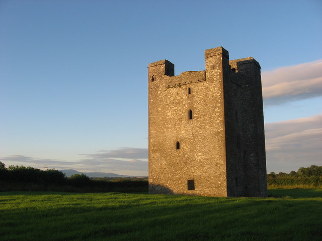 Roodstown Castle, Co. Louth Situated on a prominent ridge overlooking the valley of the River Dee, this well-preserved late-medieval tower house is in state care. Four storeys high, the ground floor is vaulted, the upper timber floors were carried on corbels.